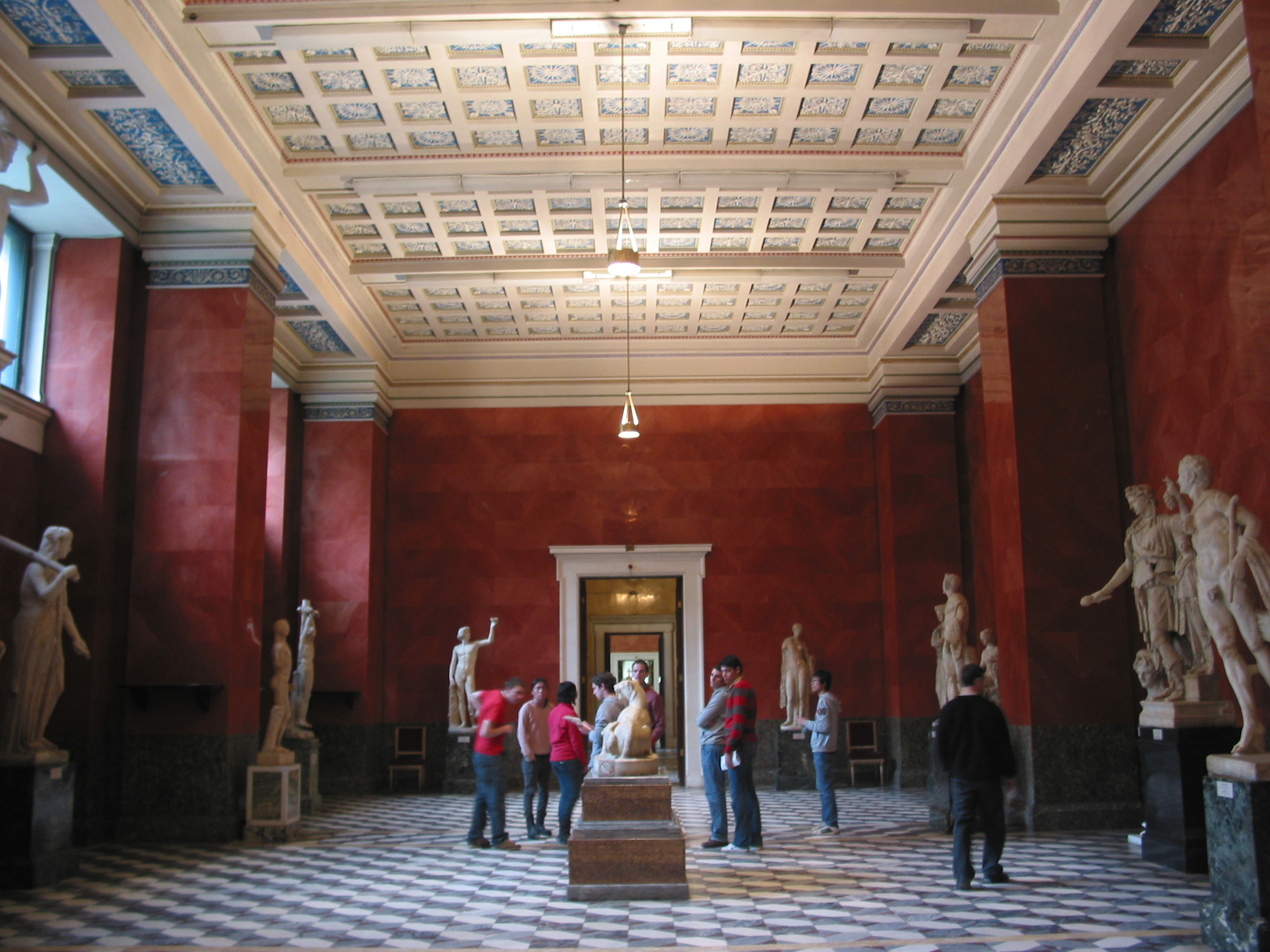 The Hall of Dionysus in the Hermitage Museums. Roman sculpture is on display there.